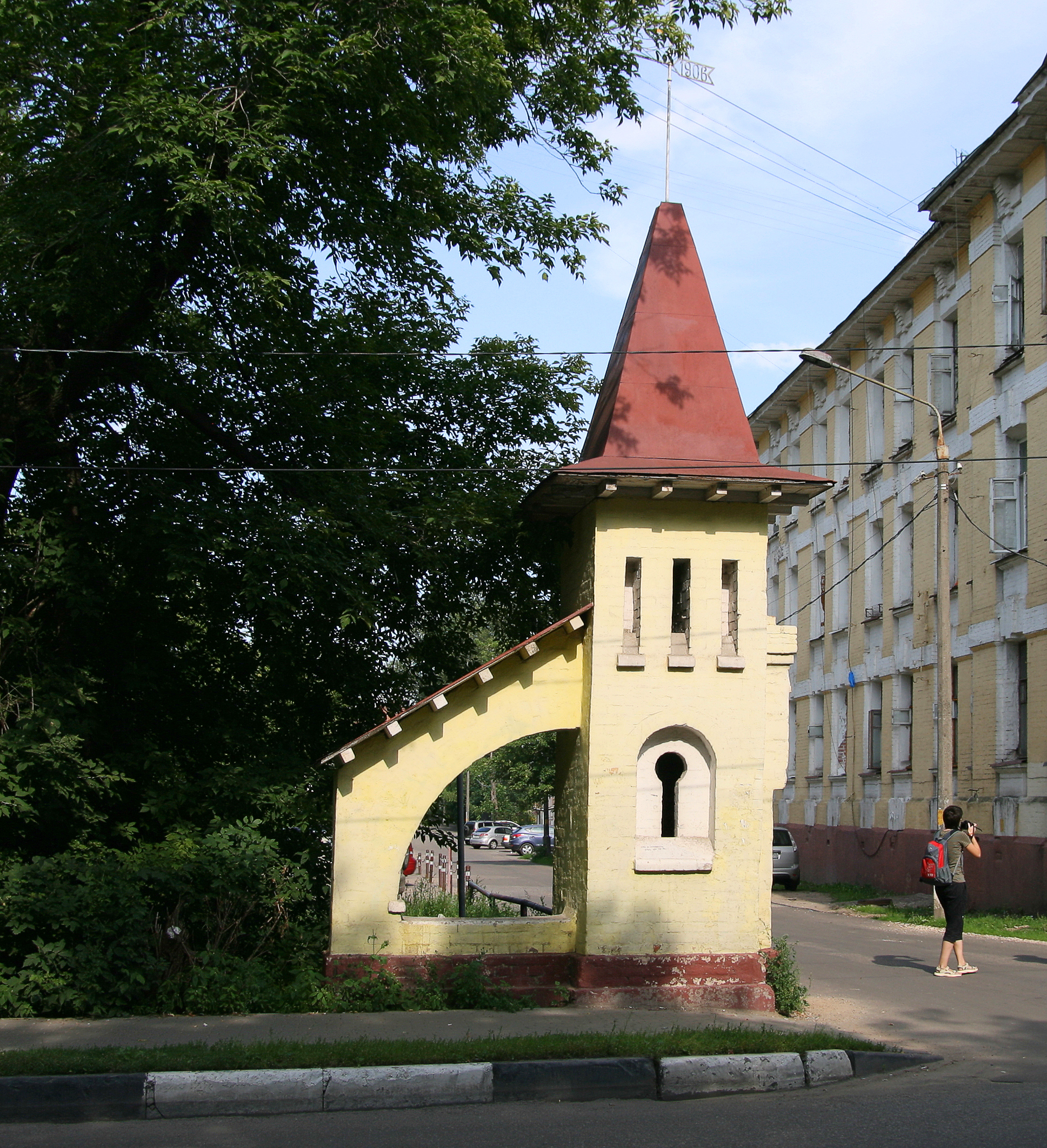 Tower "Key", Ivanteyevka, Moscow Oblast